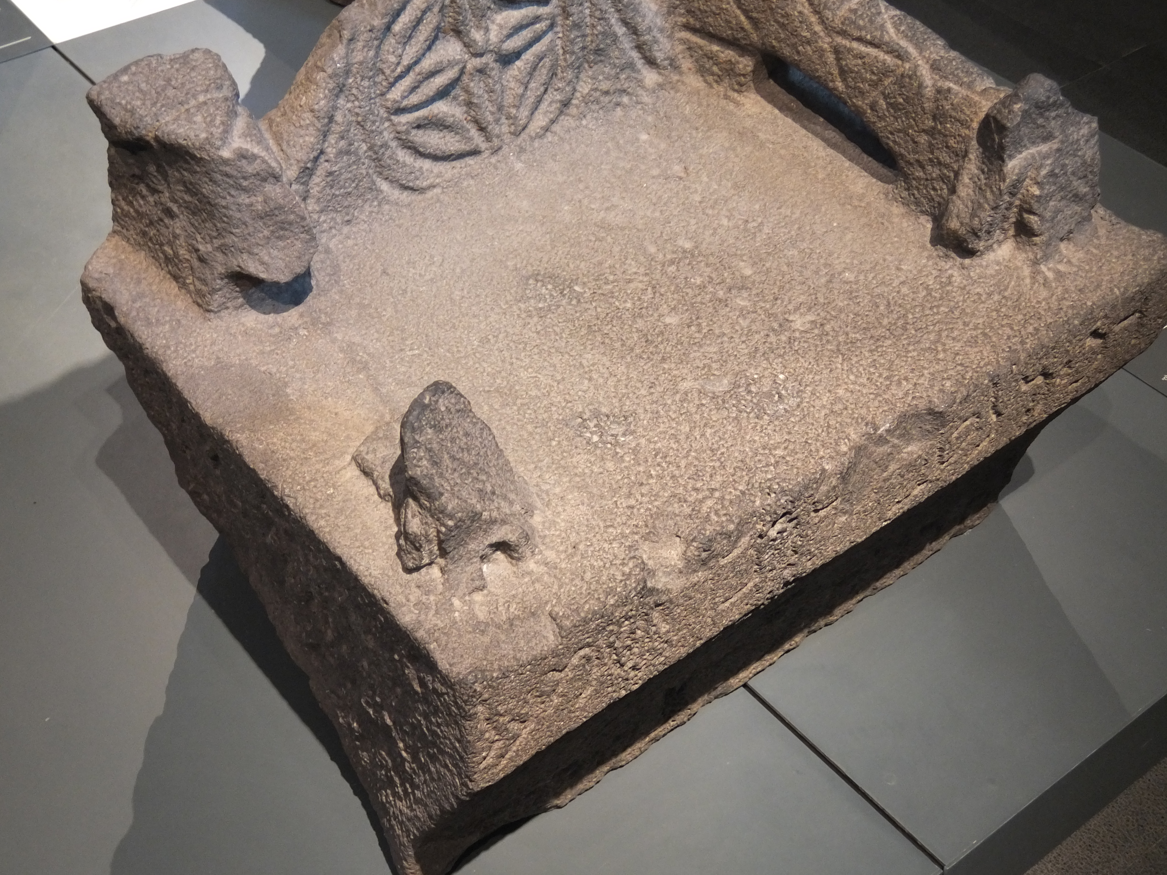 Seat made from basalt stone, discovered in the Chorazin Synagogue